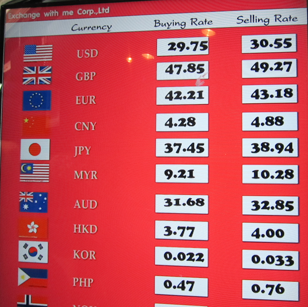 Next time I will bring in sterling, and not be ripped of by those money changers back home. Thai baht.